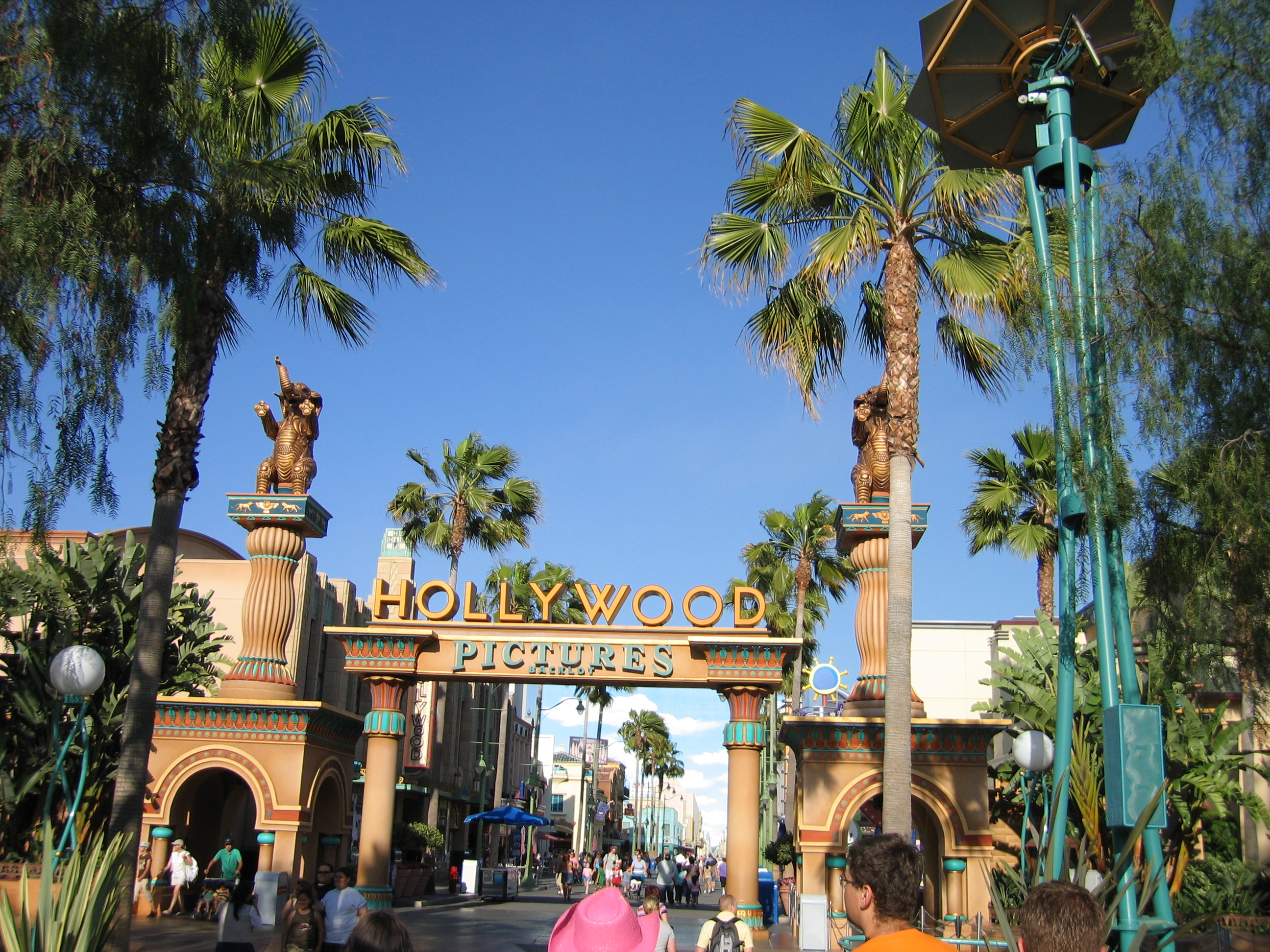 Disney's California Adventure, Hollywood Pictures Backlot entrace.